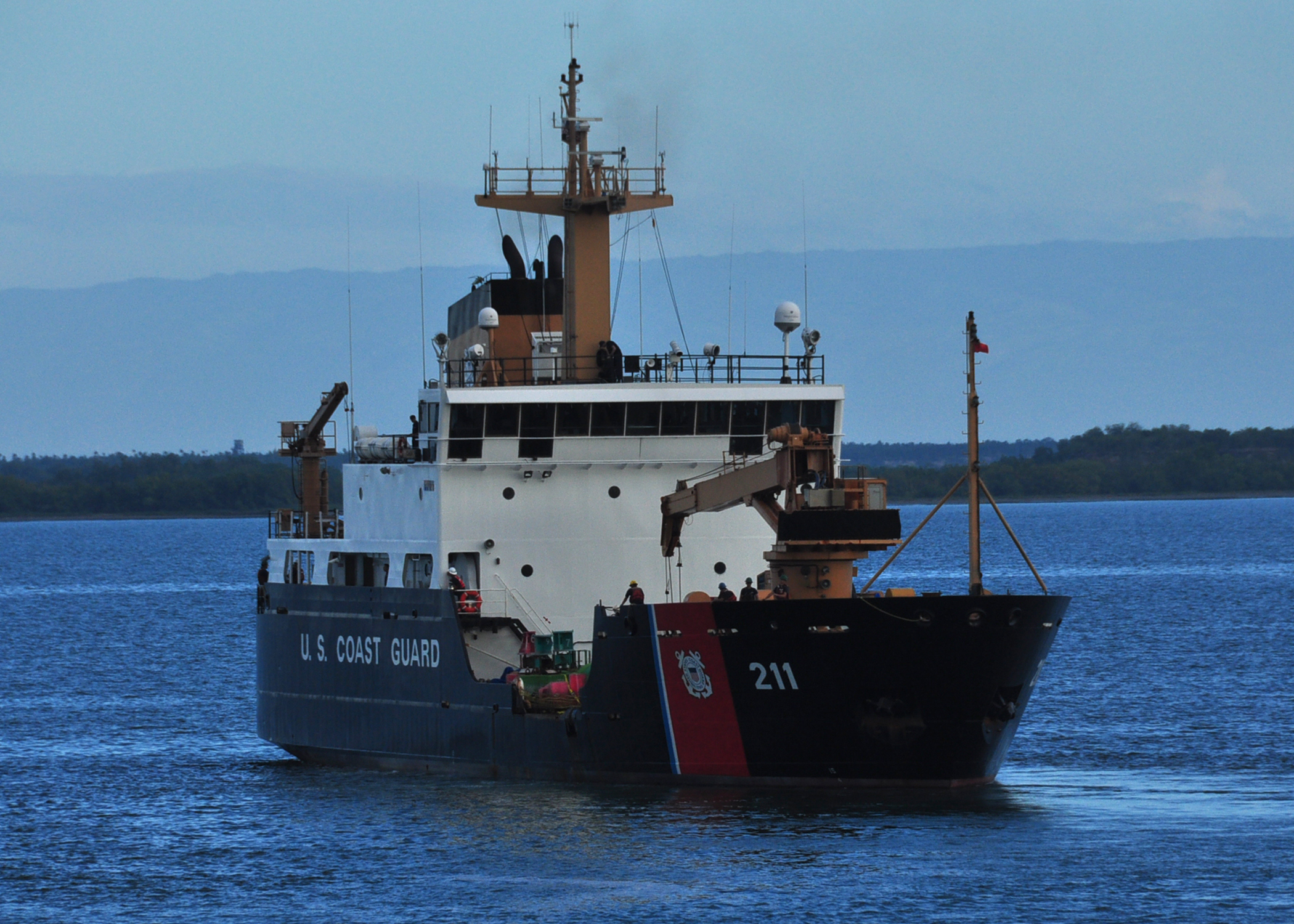 GUANTANAMO BAY, Cuba (Oct. 21, 2011) The United States Coast Guard sea-going buoy tender USCGC Oak (WLB 211) gets underway from Naval Station Guantanamo Bay (GTMO), Cuba. Oak was at GTMO to perform repairs and maintenance on the naval station's navigational buoys. (U.S. Navy photo by Chief Mass Communication Specialist Bill Mesta/Released)